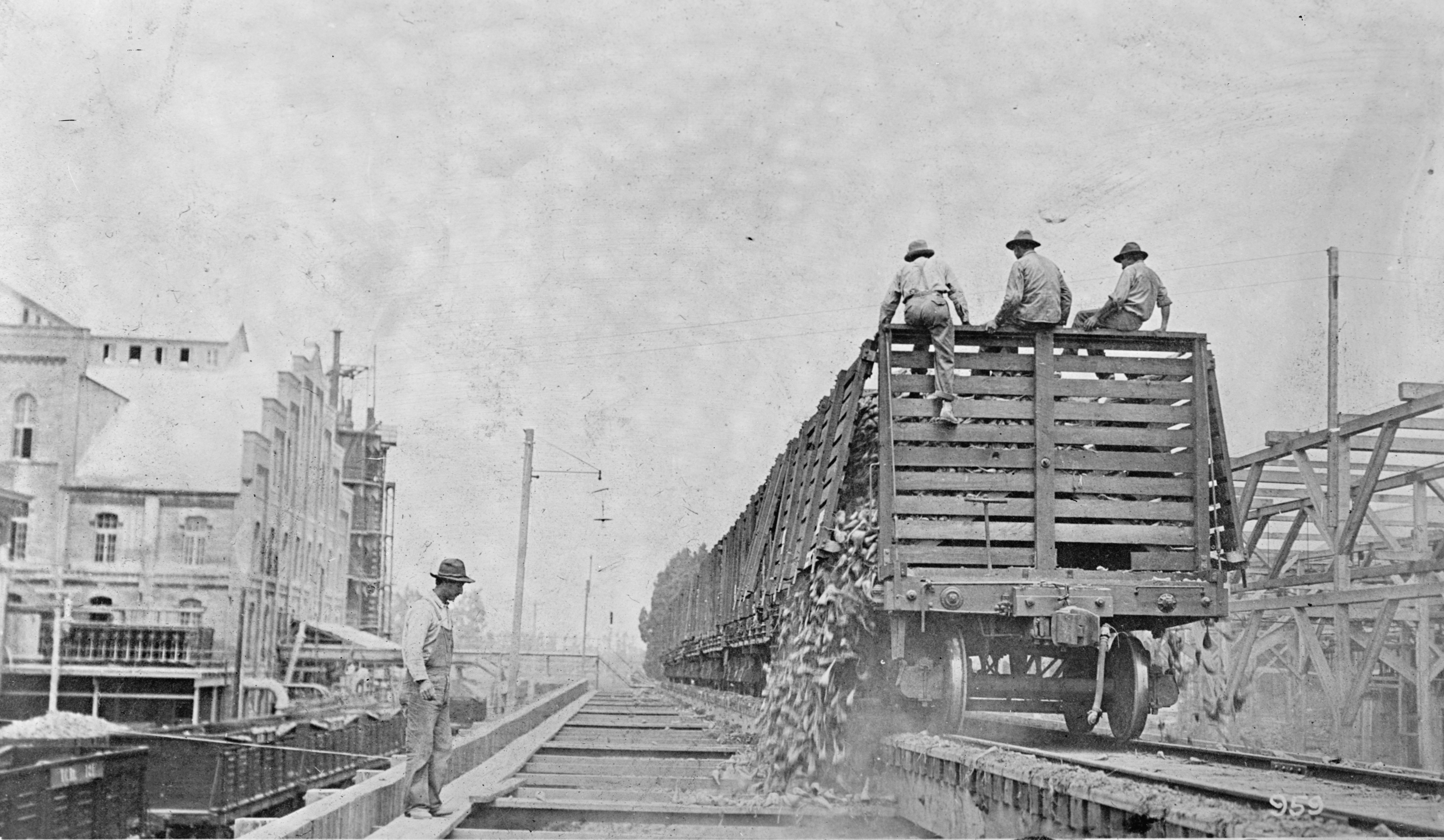 Title: Food Adm. sugar, unloading beets from cars, Oxnard, [California], factory Abstract/medium: 1 negative : glass ; 8 x 6 in.